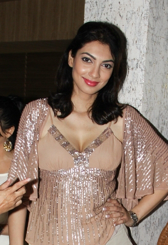 Yukta Mookhey in 2017.